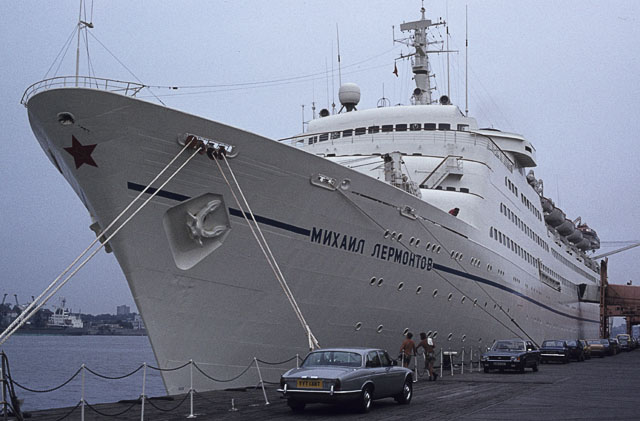 The Soviet cruise ship Mikhail Lermontov («Михаил Лермонтов») at Tilbury, near to Gravesend, Kent, Great Britain. Even in the early eighties, there were the Soviet cruise ships in the Thames. I don't know if this ship was taking Soviet tourists to Britain or taking British tourists to the Baltic. I suspect the latter.